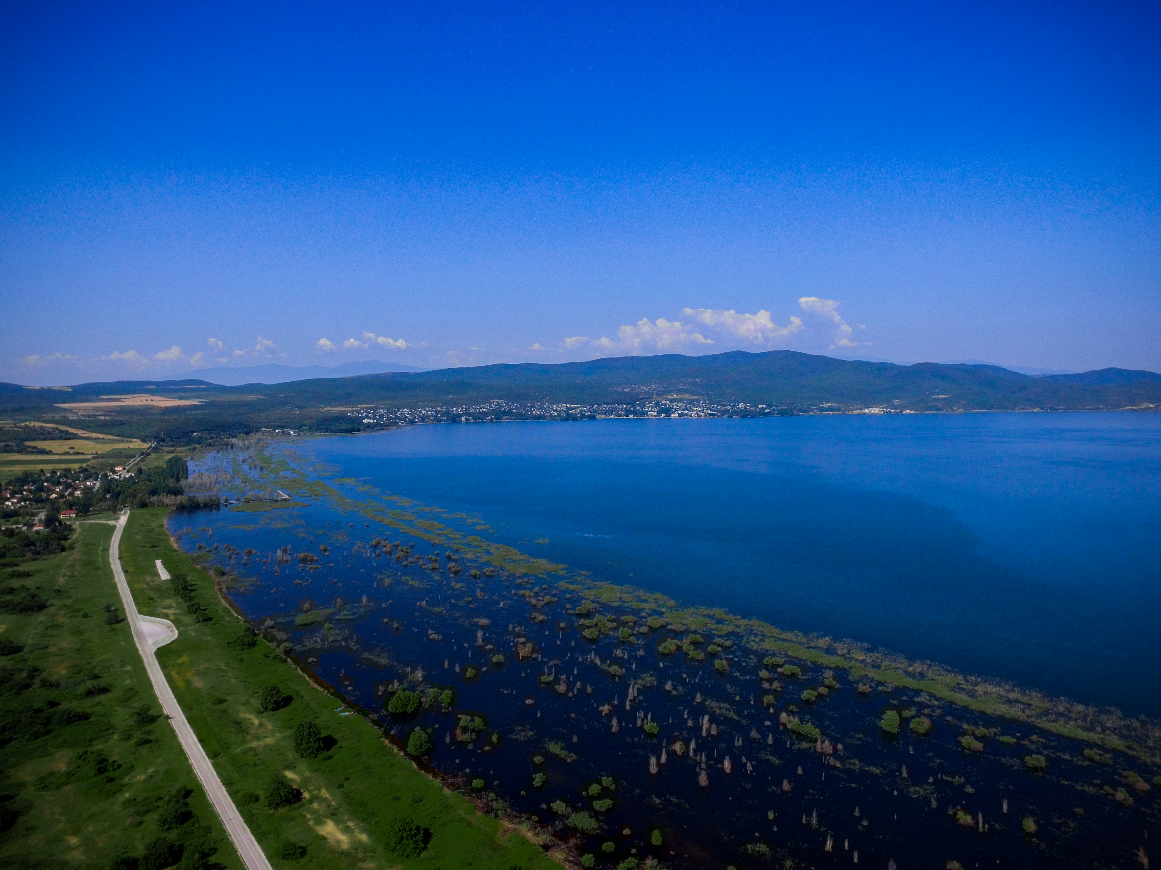 Aerial view of Doirani Lake This is a photography of Natura 2000 protected area with ID GR1230003